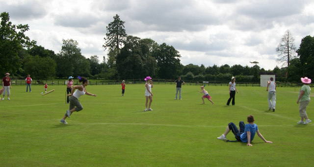 Rounders at the cricket club, Nowton Nowton Cricket Club hosts a game of rounders, at a company fun day. Nowton is a small village but its cricket club seems to attract people from a wide area, including its far larger neighbour, Bury St. Edmunds. The ground is tucked away down a dirt track and largely surrounded by trees.